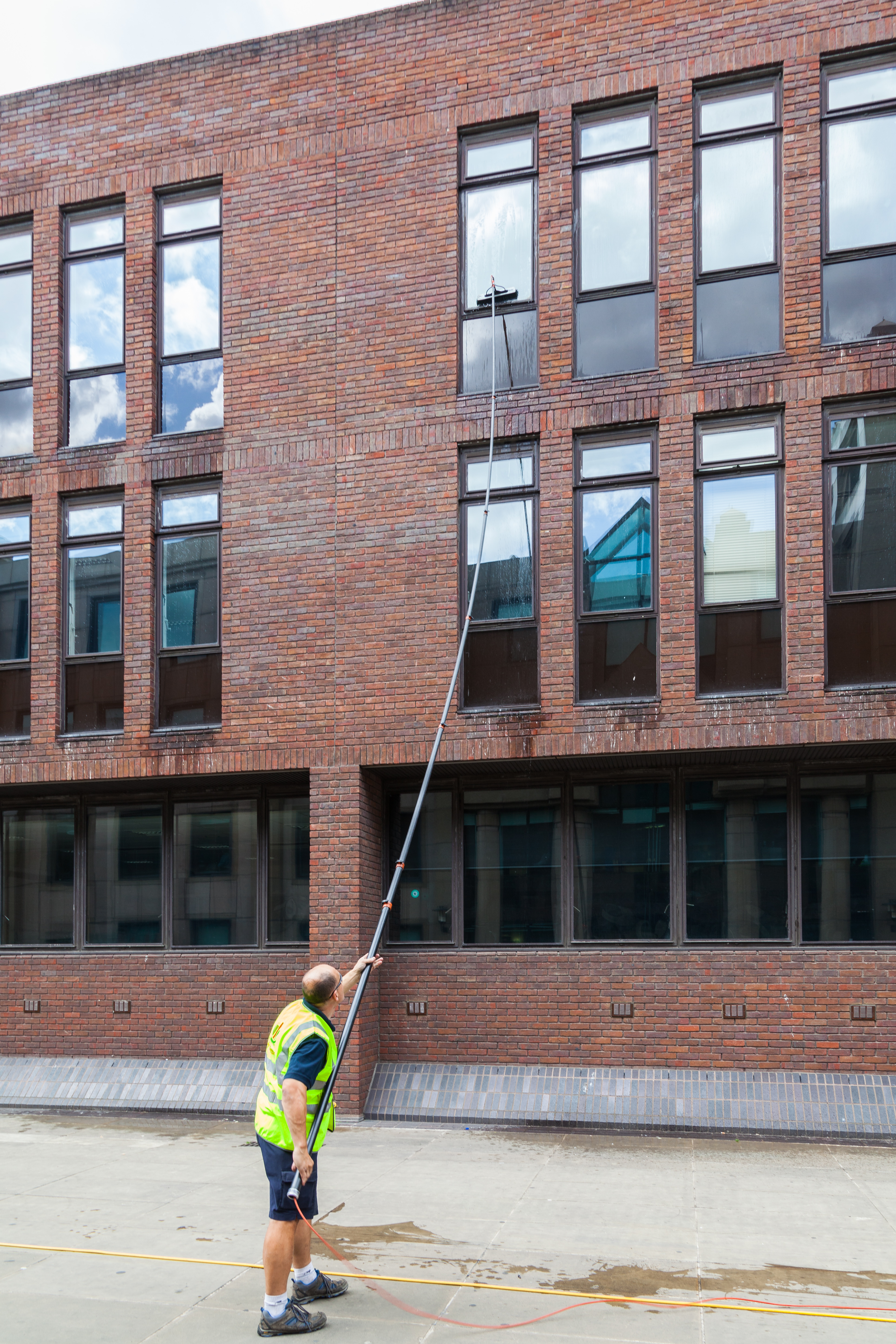 Window cleaining in Peter's Hill St., London, England